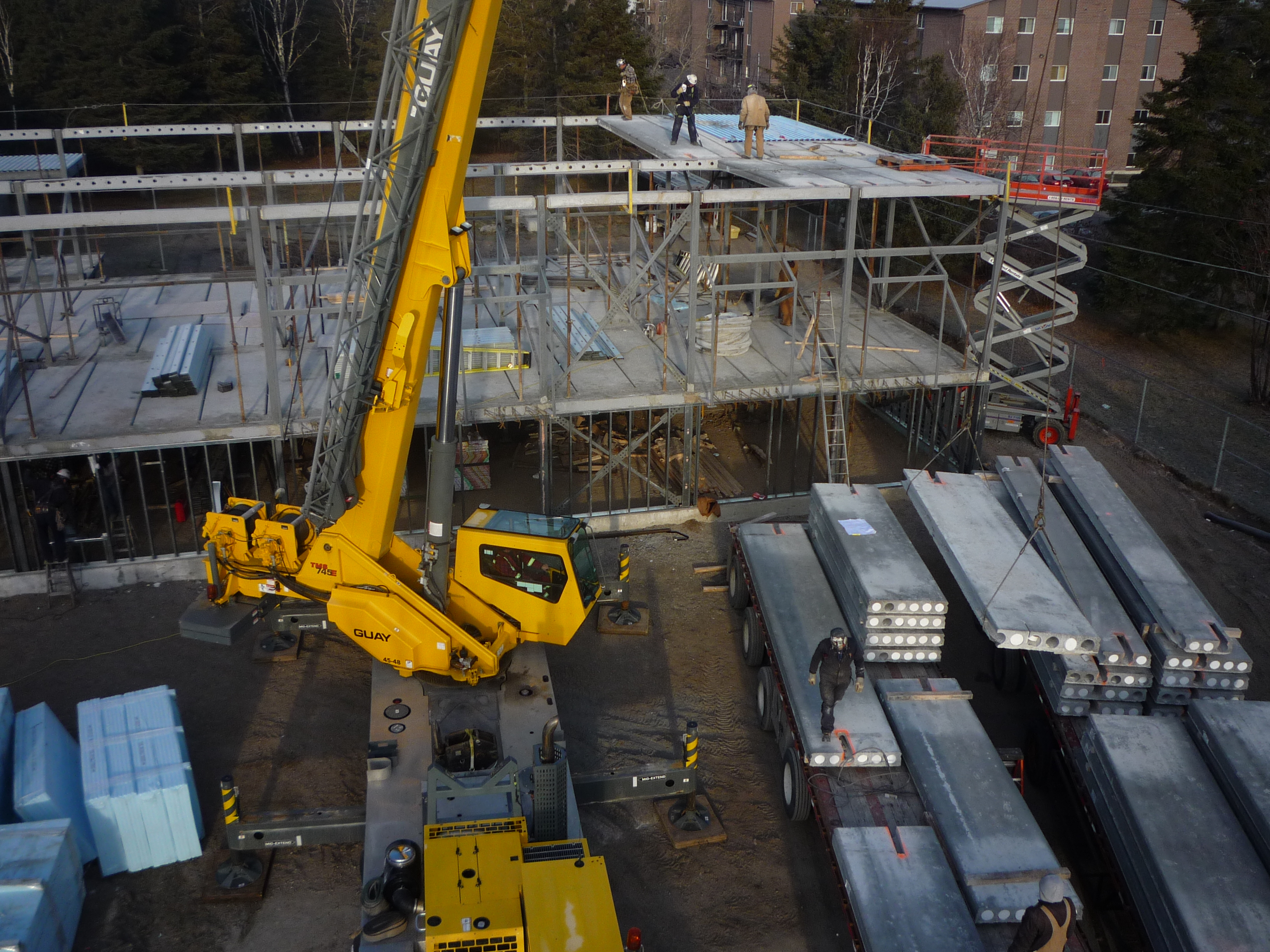 Using Deltabeams in a continuous column has many benefits when combined with the PCs Corbel system from Peikko. The assembly is fast and the vertical loads are taken by the continuous columns allowing very high constructions built in record time